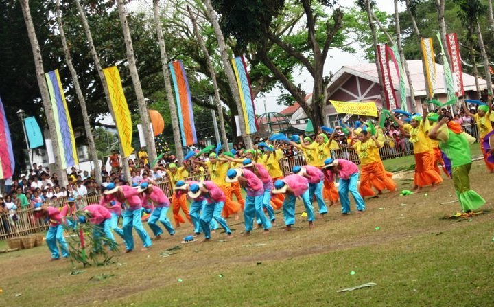 The Dance Showdown 2011